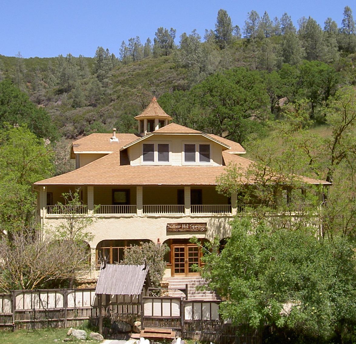 Front of lodge at Wilbur Hot Springs resort in Wilbur Springs, Colusa County, California, seen from the south (across Sulphur Creek).